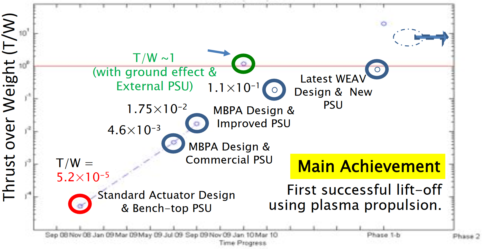 Timeline demonstrating the progress and accomplishments of the WEAV project from mid 2008 to early 2011.